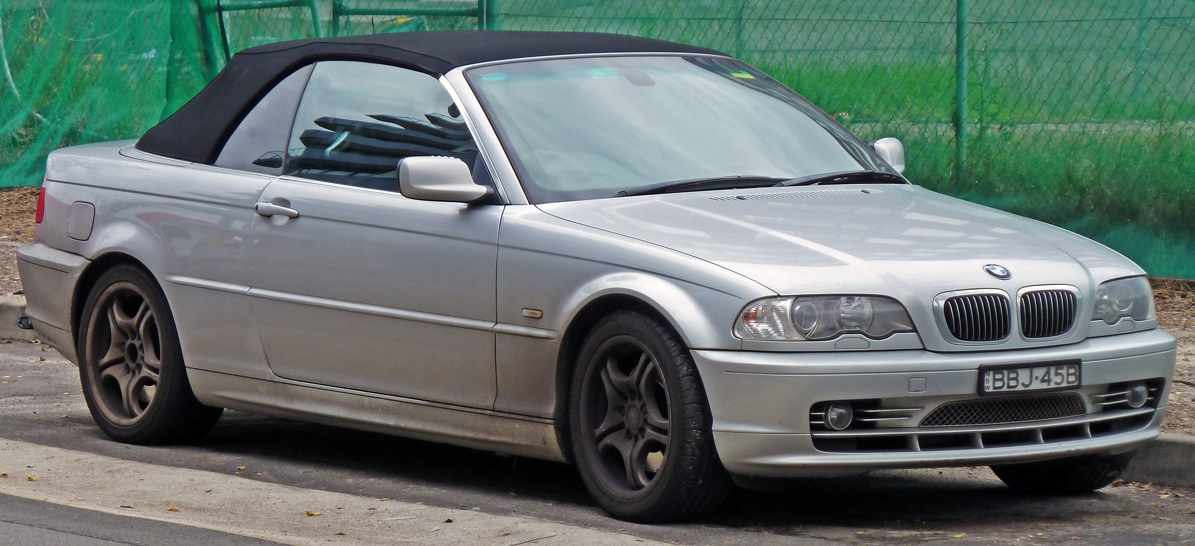 2003 BMW 330Ci (E46) convertible. Photographed in Zetland, New South Wales, Australia.